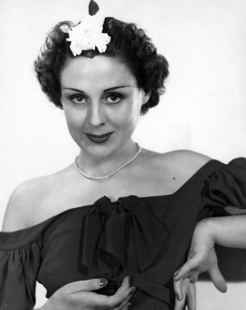 Photo of actress Vicki Vola. There are no copyright marks on the photo.